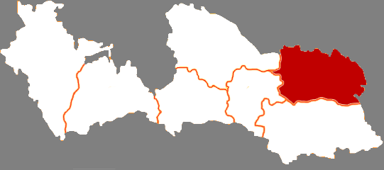 Location of Jingchuan county in Pingliang city, China